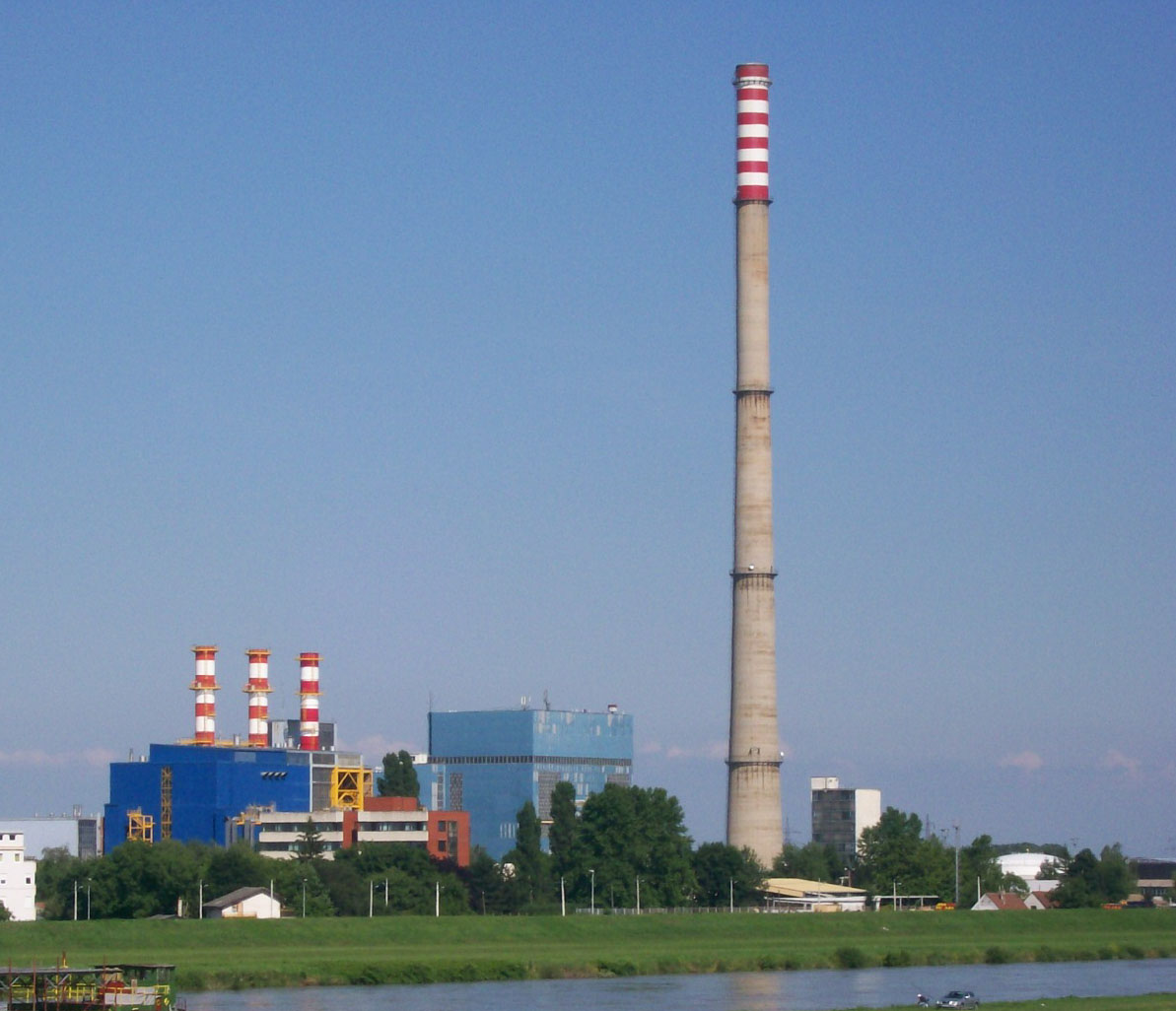 Thermal power station, Zagreb, Croatia